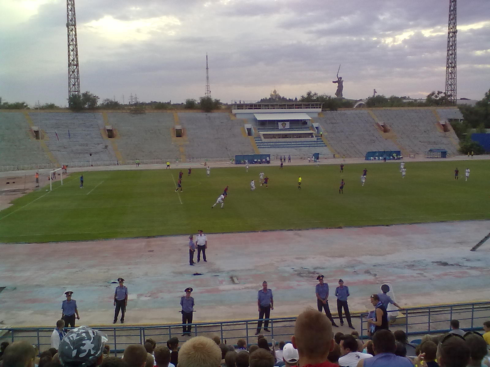 The Central Stadium of Volgograd.